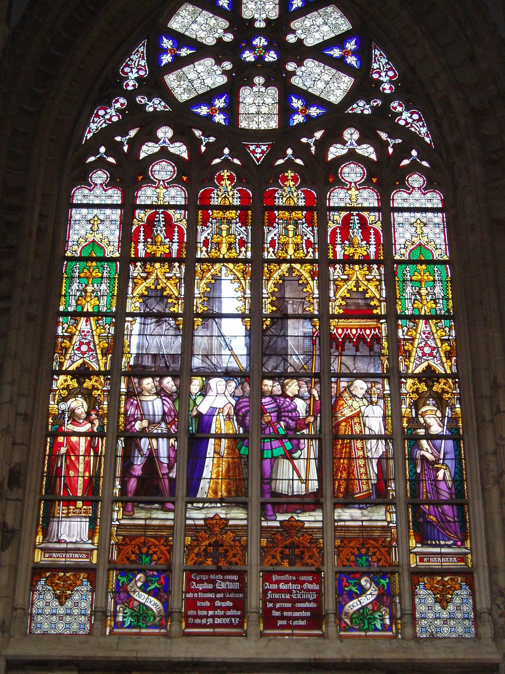 Cathédral St Michel in Brussels